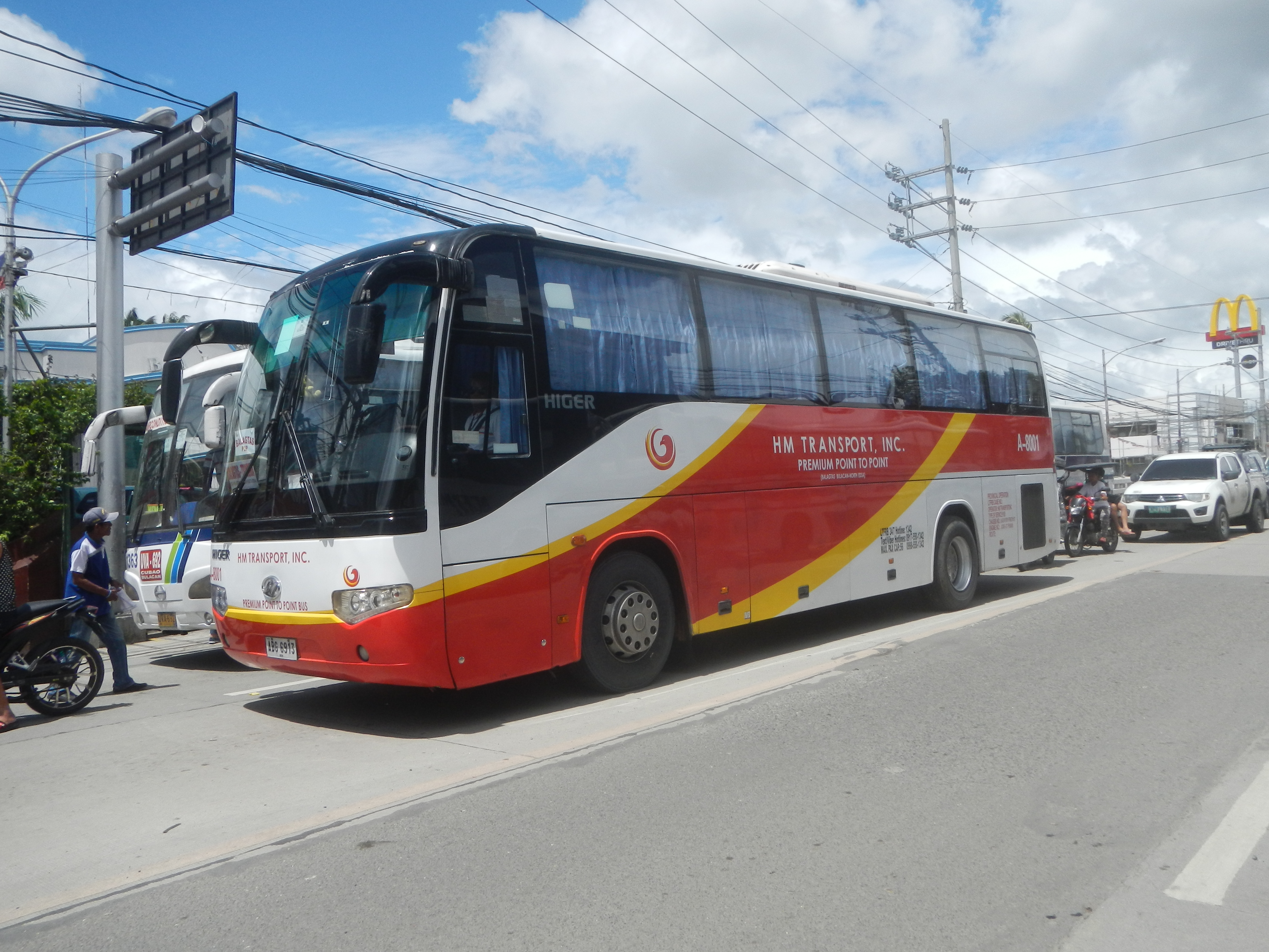 Bulacan Bulk Water Supply Project water pipelines (Balagtas Bridge - Balagtas River) San Lorenzo Multi-Purpose Cooperative in Wawa, Balagtas, Bulacan Bulacan 11-billion peso bulk water supply project Water supply and sanitation in the Philippines Bulacan Bulk Water Supply Project in Barangay Burol 1, 14°49'32"N 120°53'56"E Wawa (Poblacion Balagtas) 14°48'58"N 120°54'13"E Balagtas, Bulacan, Bulacan province towards MacArthur Highway or Manila North Road MacArthur Highway Philippine highway network (Note: Judge Florentino Floro, the owner, to repeat, Donor Florentino Floro of all these photos hereby donate gratuitously, freely and unconditionally Judge Floro all these photos to and for Wikimedia Commons, exclusively, for public use of the public domain, and again without any condition whatsoever).